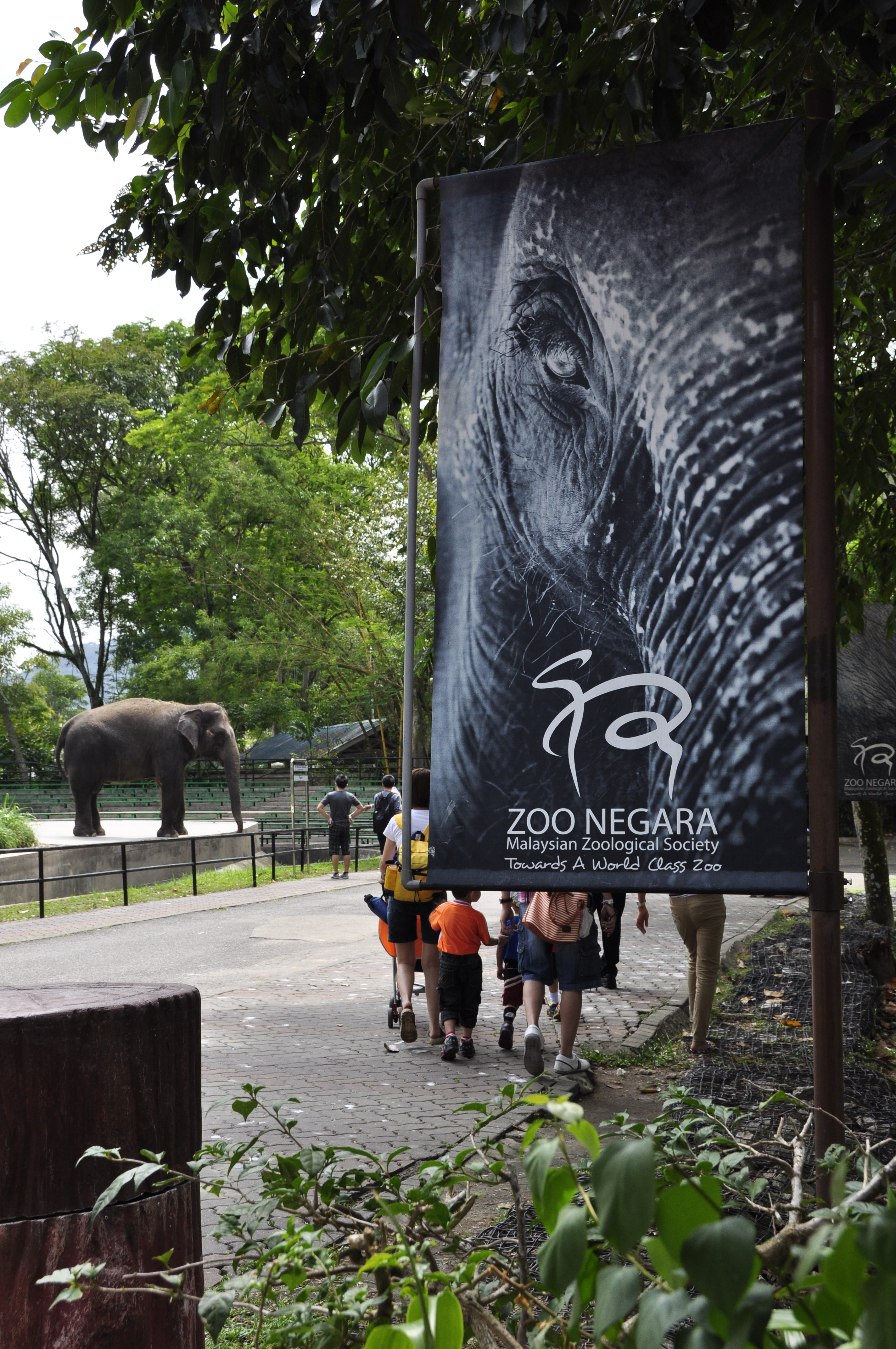 Elephant in Negara Zoo 2011